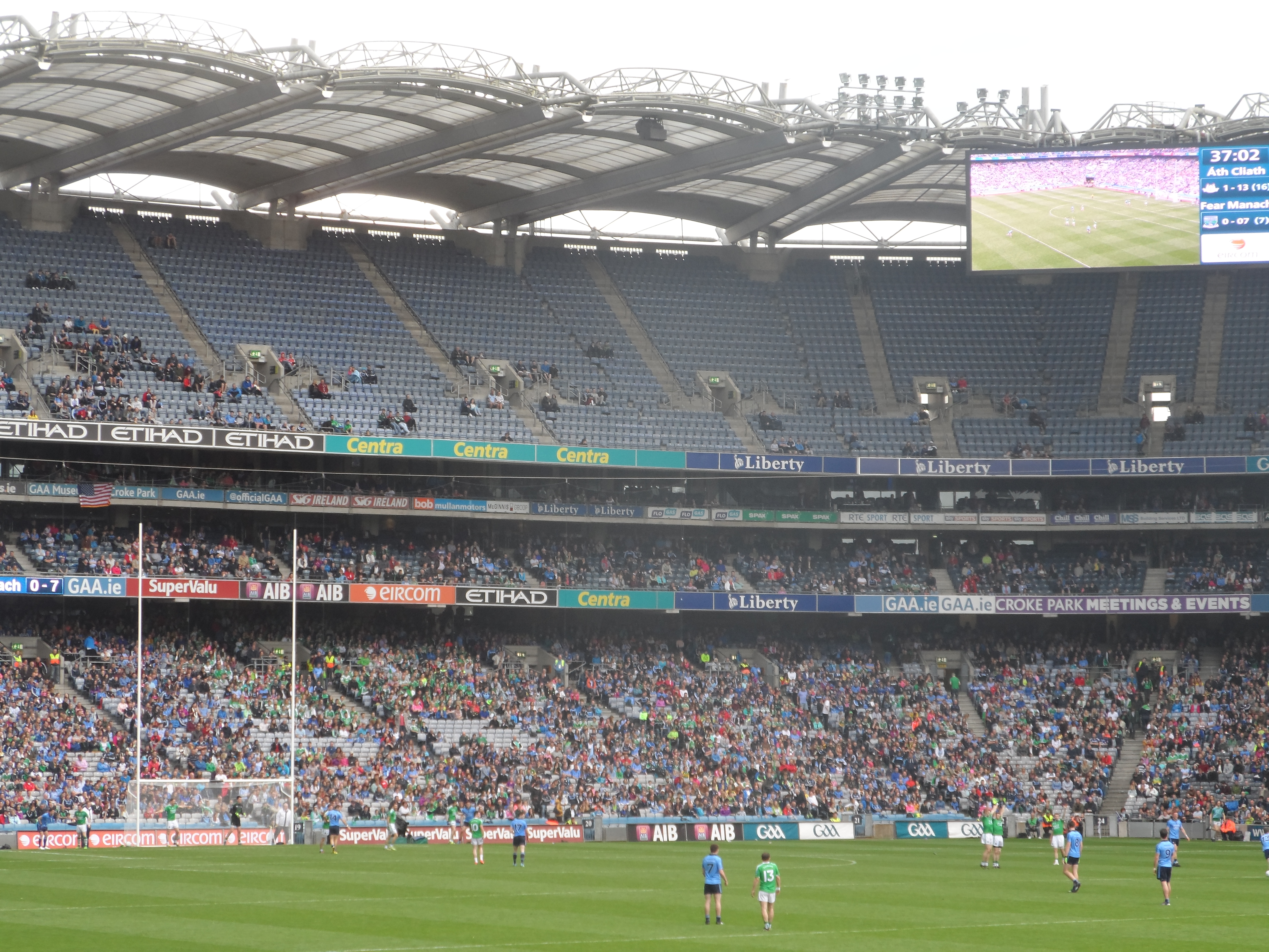 Crowd in Croke Park